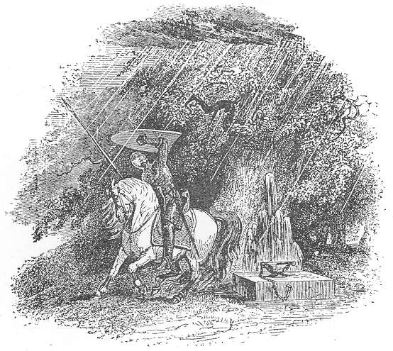 An image of either Owain or Cynon protecting themselves from a supernatural hailstorm that precedes the coming of the Black Knight. Taken from the 1902 edition of The Mabinogion edited by Owen Morgan Edwards, from the original translation by Charlotte Guest.